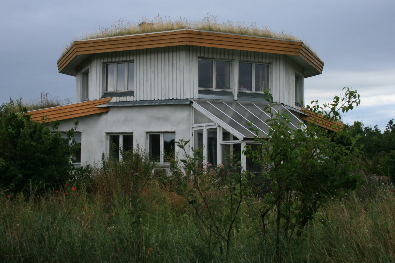 The village society of "Dyssekilde" at Torup, northern Sealand, Denmark